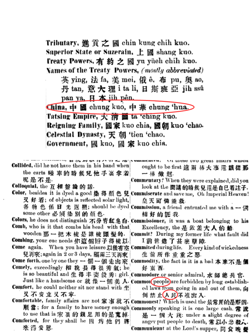 part of Vocabulary and hand-book of the Chinese language. Romanized in the Mandarin dialect